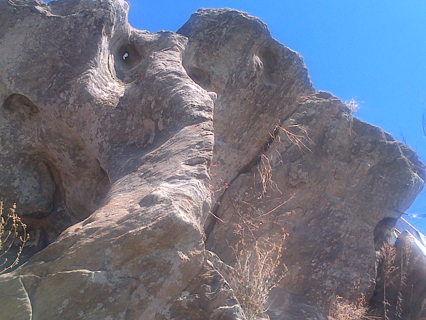 MonkeyFaceStone-Mukteshwar